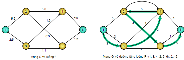 Đường tăng luồng